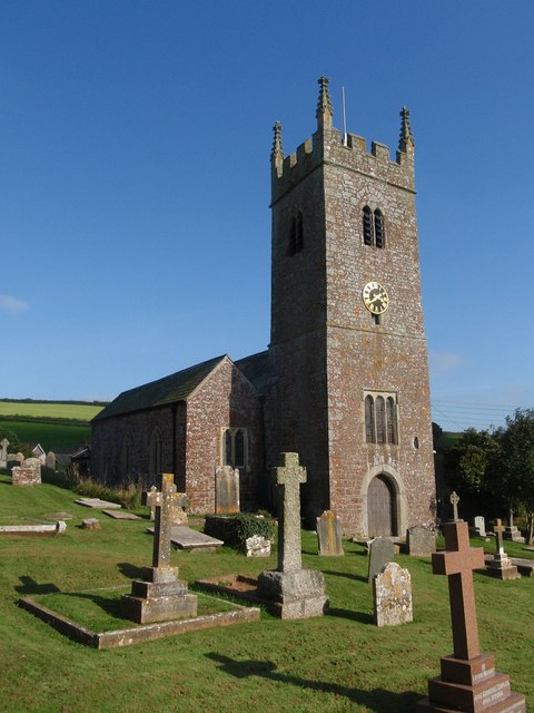 St Mary's church, Ideford. Another view of 349548, from the west side of the churchyard. "Much rebuilt in 1850" (Cherry & Pevsner).